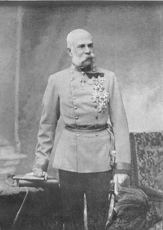 Portrait of Franz Joseph I of Austria. Original caption (in Istro-Romanian): Imperatoru Francisc Joseph